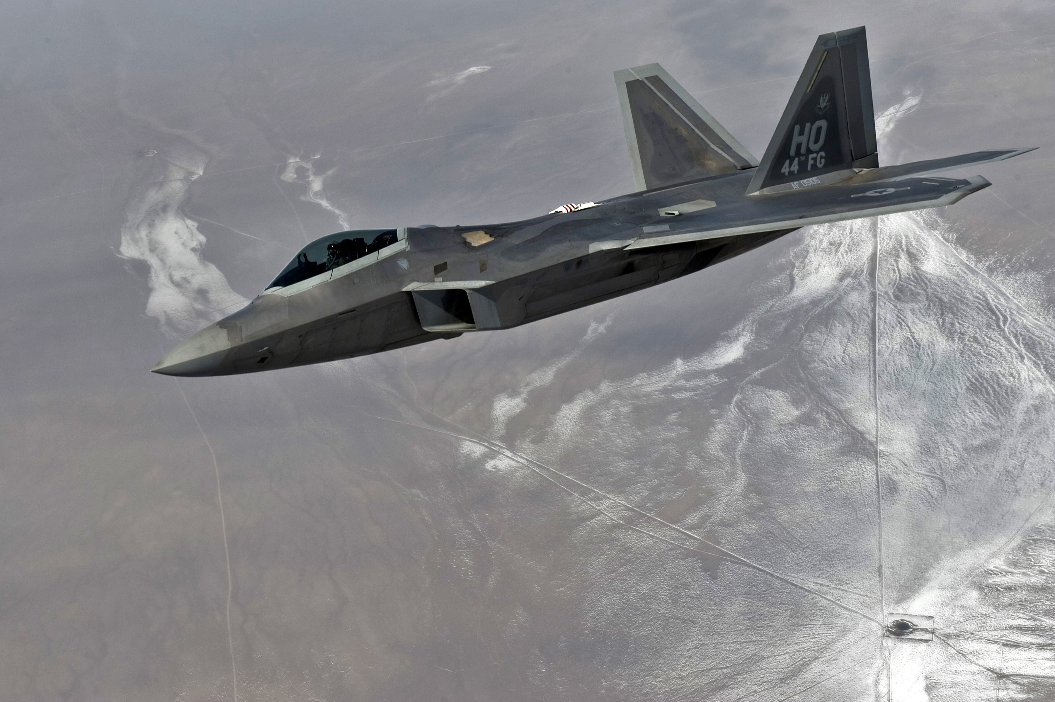 A U.S. Air Force F-22 Raptor, 49th Fighter Wing, Holloman Air Force Base, N.M., flies over the Nevada Test and Training Range for a training mission during Red Flag 11-3, March 2, 2011. Red Flag is a realistic combat training exercise involving the air forces of the United States and its allies. The exercise is hosted north of Las Vegas on the Nevada Test and Training Range.(U.S. Air Force photo by Senior Airman Brett Clashman)